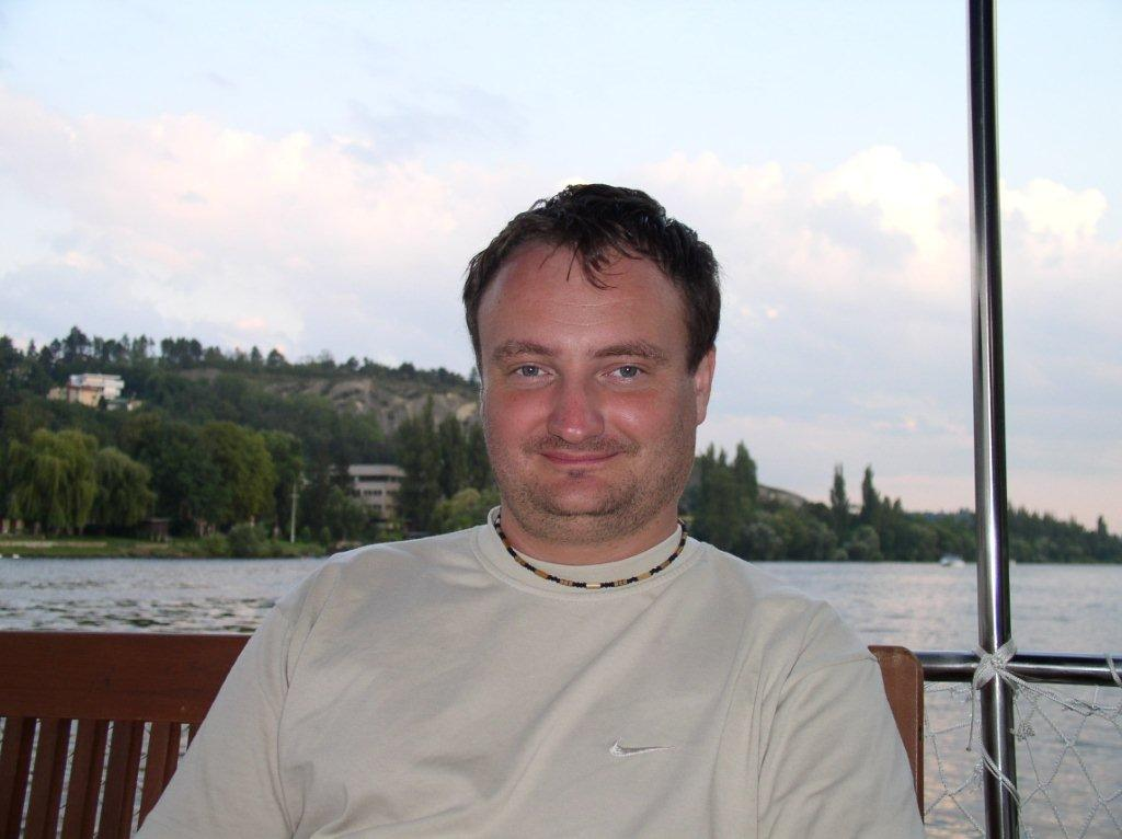 Jan Pavel, Czech writer and poet. Česky: Jan Pavel, český spisovatel a básník